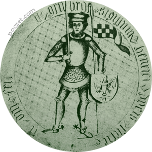 Henry VIII the Sparrow, Duke of Zágán